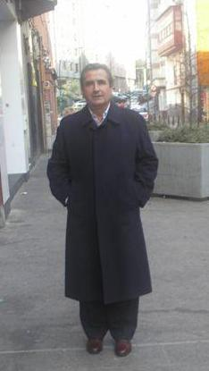 Description: Personal Picture Author: Jose Ricardo Diaz Pardeiro